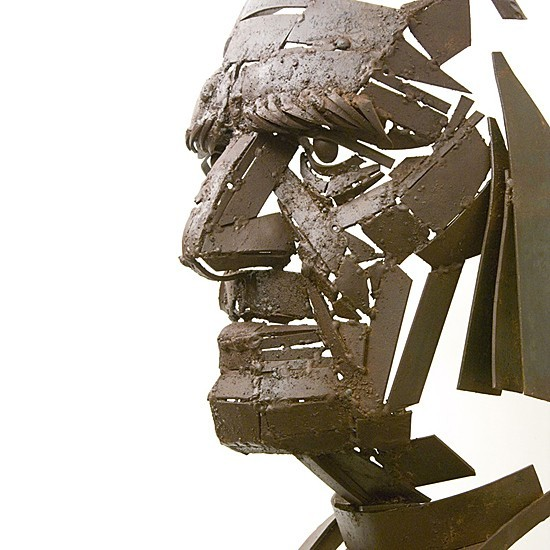 Franz Liszt bust, 2011, iron. Sculptor: Laszlo Szlavics, Jr.